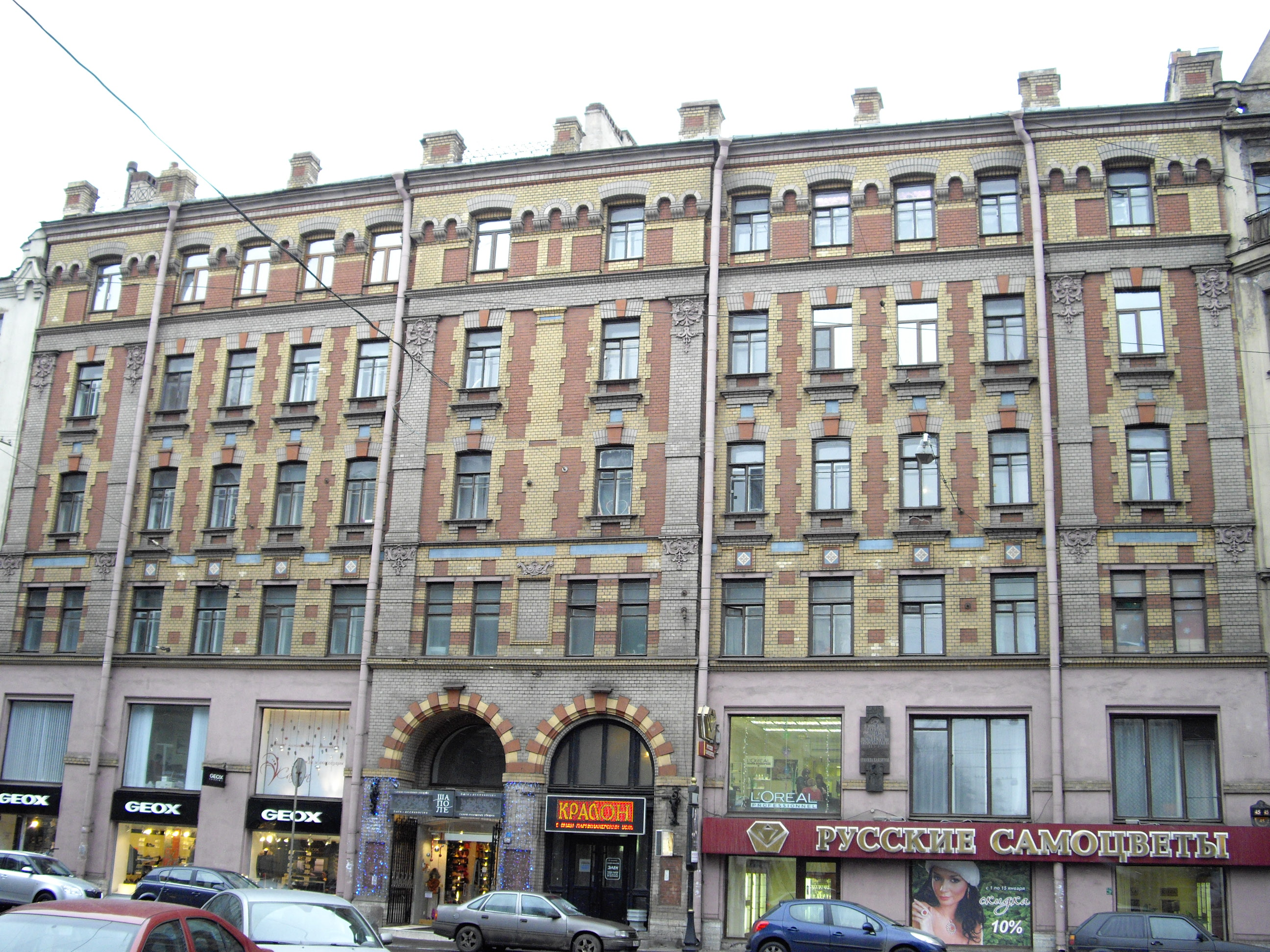 45, Bolshoy Prospect P.S. (Grand avenue of the Petrograd side), Saint-Petersburg, Russia. Architect N. N. Nikonov, 1901.